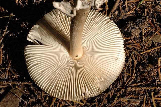 Amanita spec. from Commanster, Belgium. The determination of the species shown in this picture has been verified.